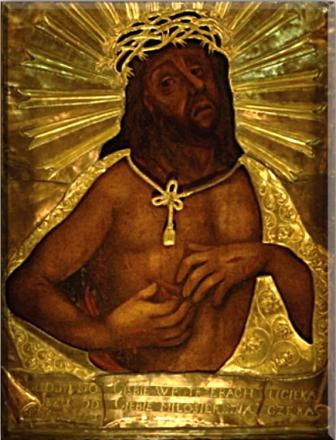 Sanktuarium-tarnoruda